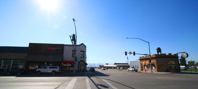 The largest town in Teton Valley (whats shown isn't all of it). The valley is actually experiencing tremendous growth as it is only just over the pass from the much more expensive Jackson, Wyoming.